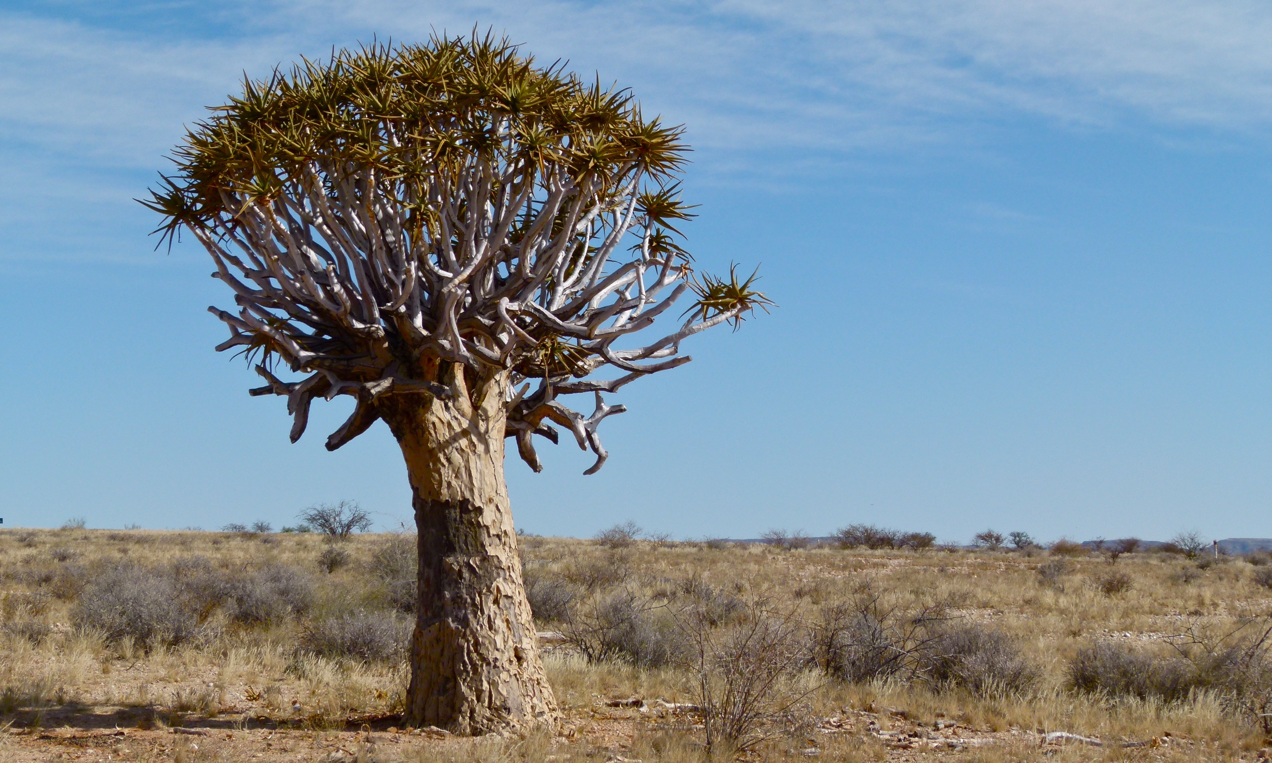 Augrabies National Park, SOUTH AFRICA